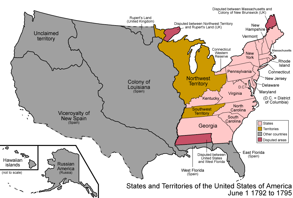 Map of the states and territories of the United States as it was from 1792 to 1795. On June 1 1792, nine western counties were split off from Virginia and admitted as the state of Kentucky. On October 27, 1795 Spain and the United States signed "Pinckney's Treaty," which resolved—in the United States' favor—a territorial dispute over the part of Spanish West Florida between 31°N and 32° 22′. The treaty became effective on August 3, 1796.